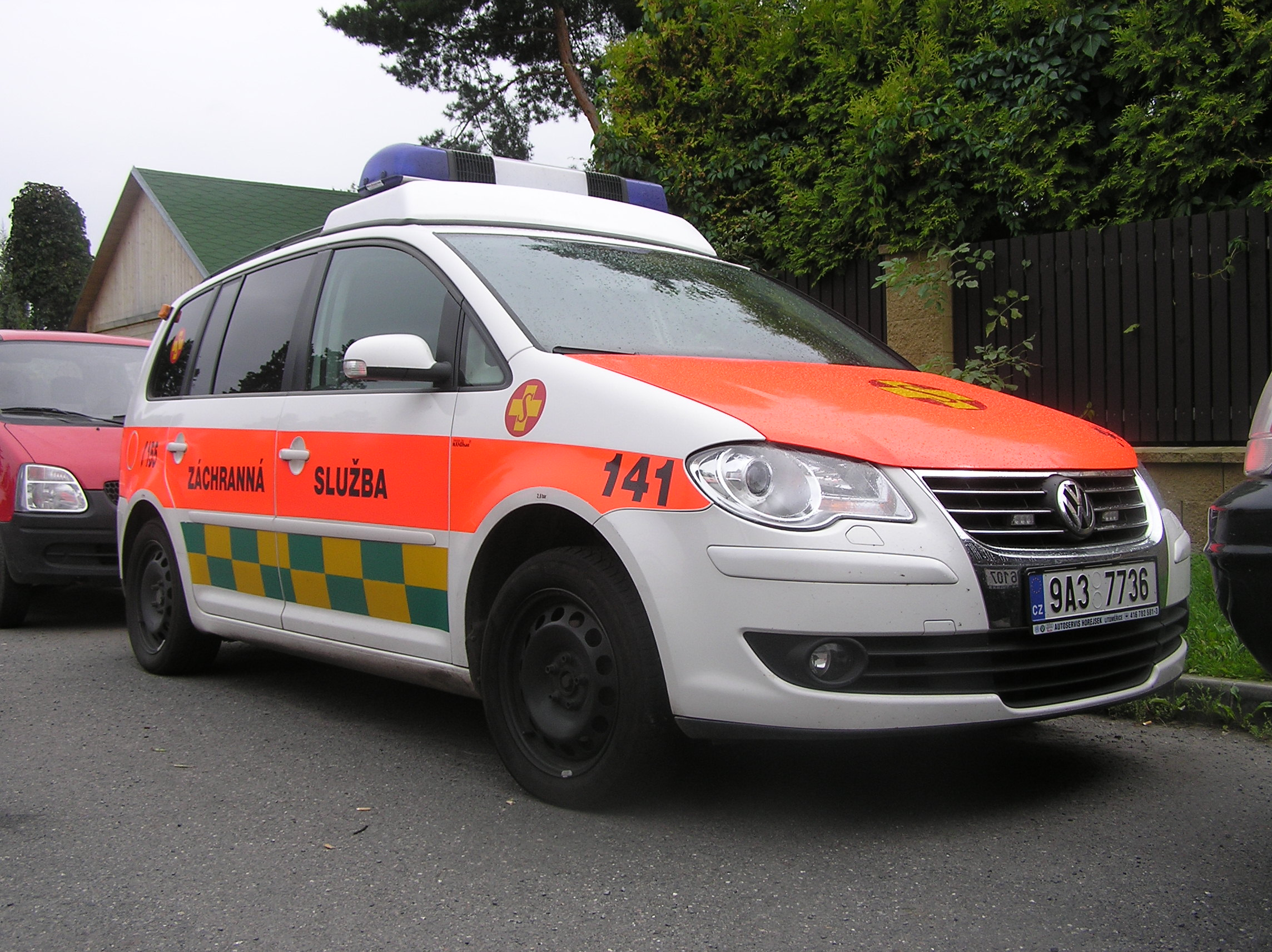 Ambulance vehicle of the Association of the Samaritans of the Czech Republic, Prague 5 - Zbraslav